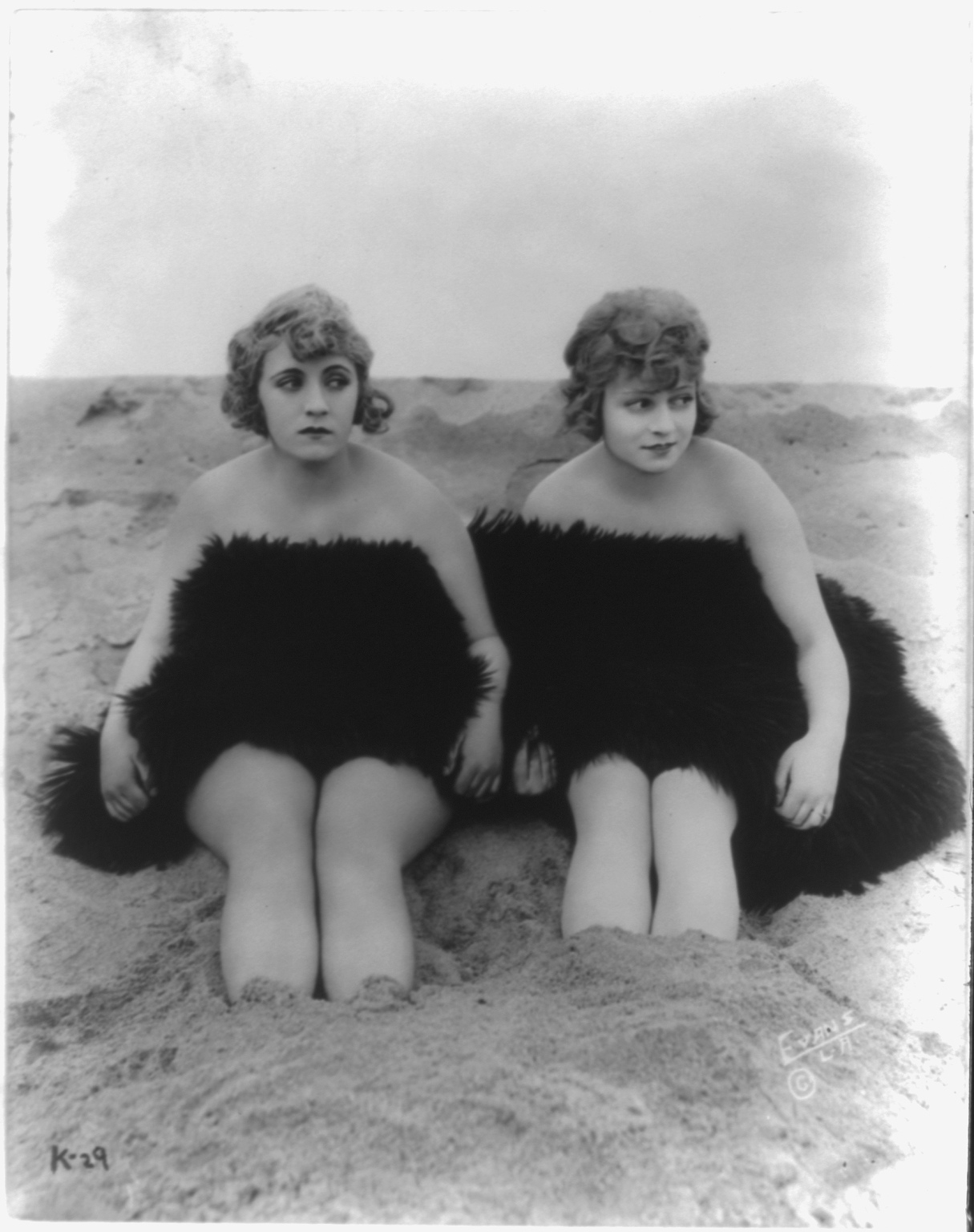 American actresses Claire Anderson and Rose Carter seated on beach, draped in a fur, with feet in sand. Both actresses were associated with Mack Sennett Comedies.